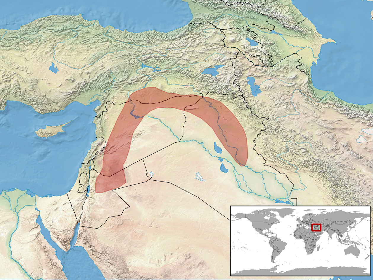 geographic distribution of Eirenis coronelloides (Native: Iraq; Jordan; Syrian Arab Republic; Turkey)